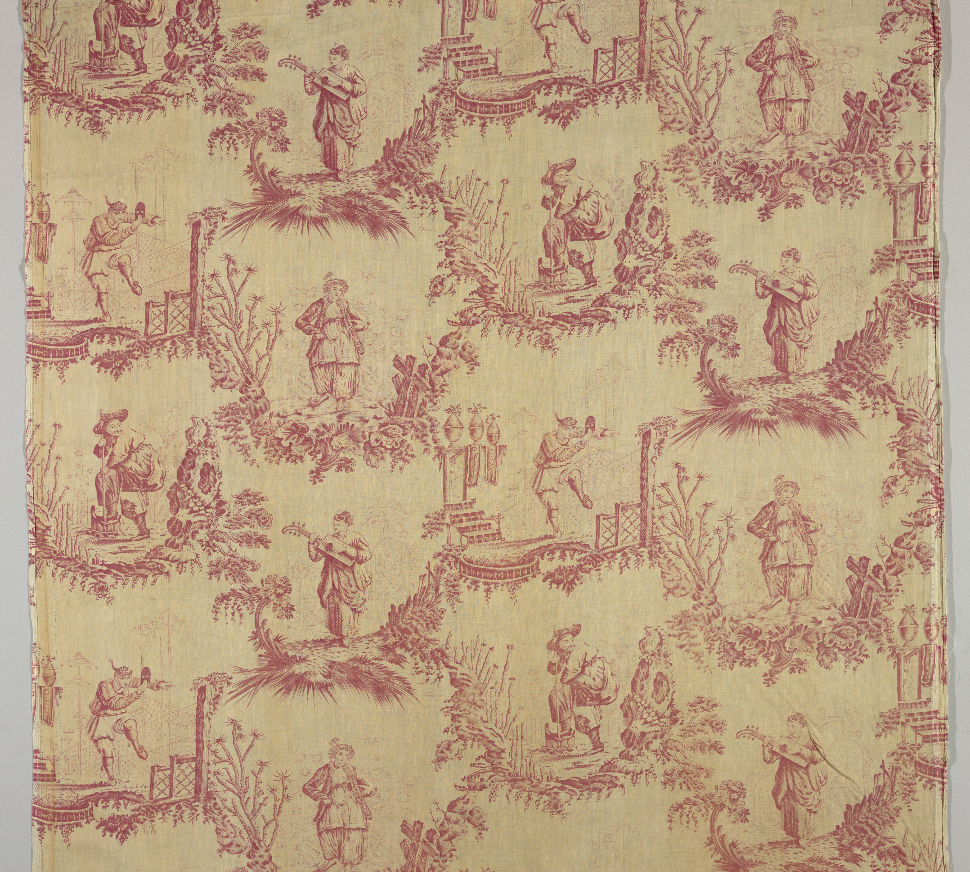 "Chinoiserie". Four designs framed by plant forms in raspberry on an off-white percale. One vignette is signed F. Perrar Sc.